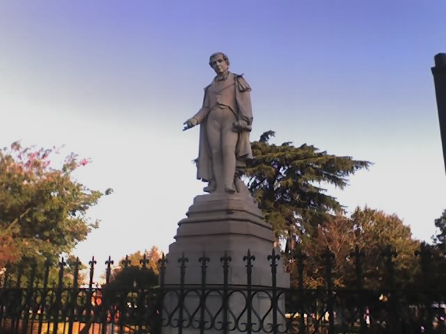 Statue of Mariano Moreno (1778-1811), argentine politician from whom the city takes its name, Moreno Partido, Buenos Aires Province, Argentina.